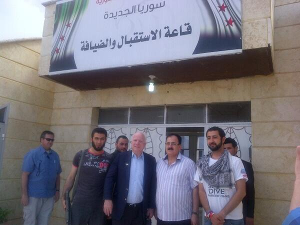 John McCain next to members of the Syrian opposition